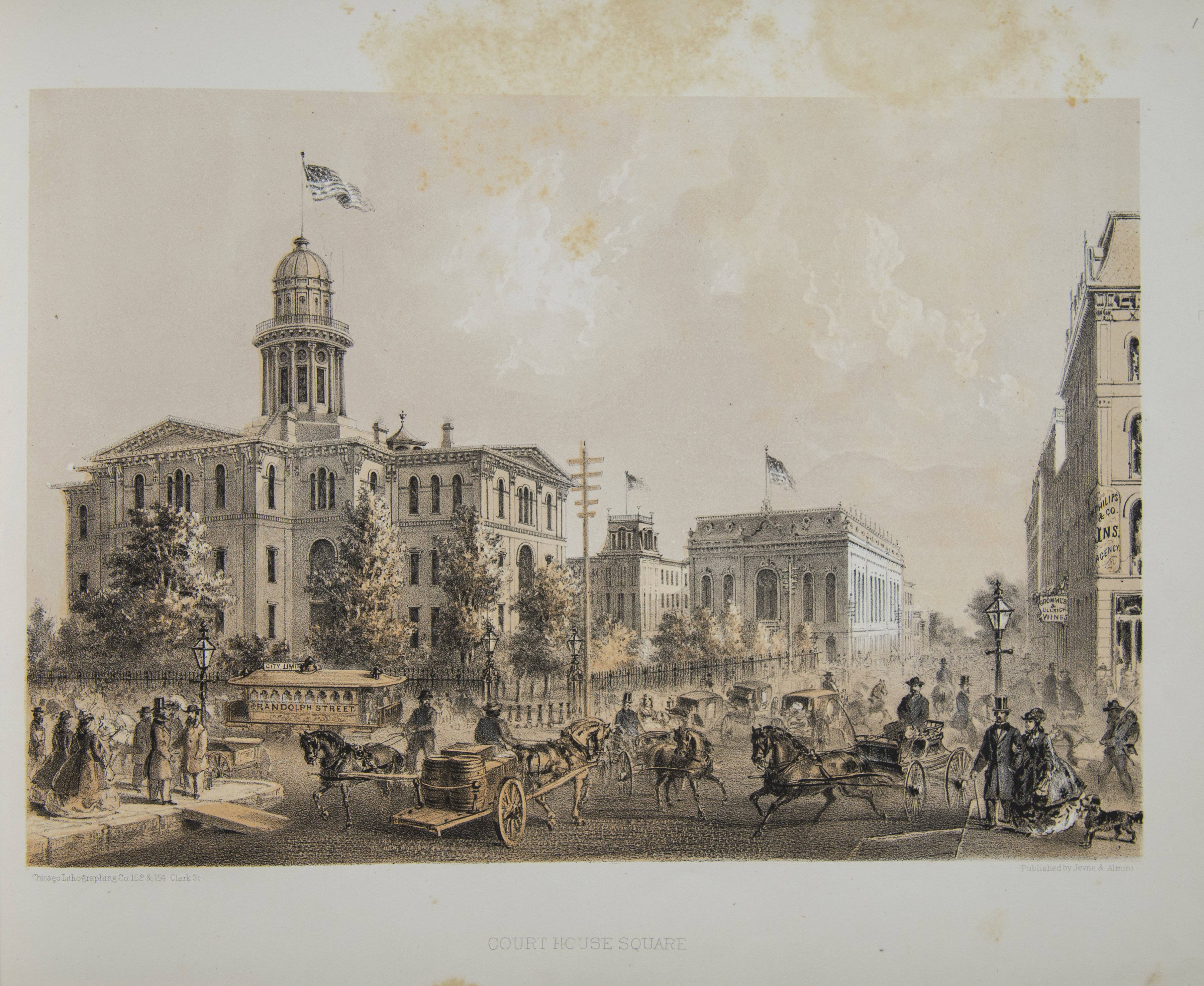 Part 4, April 1866; North-west corner of La Salle and Randolph streets